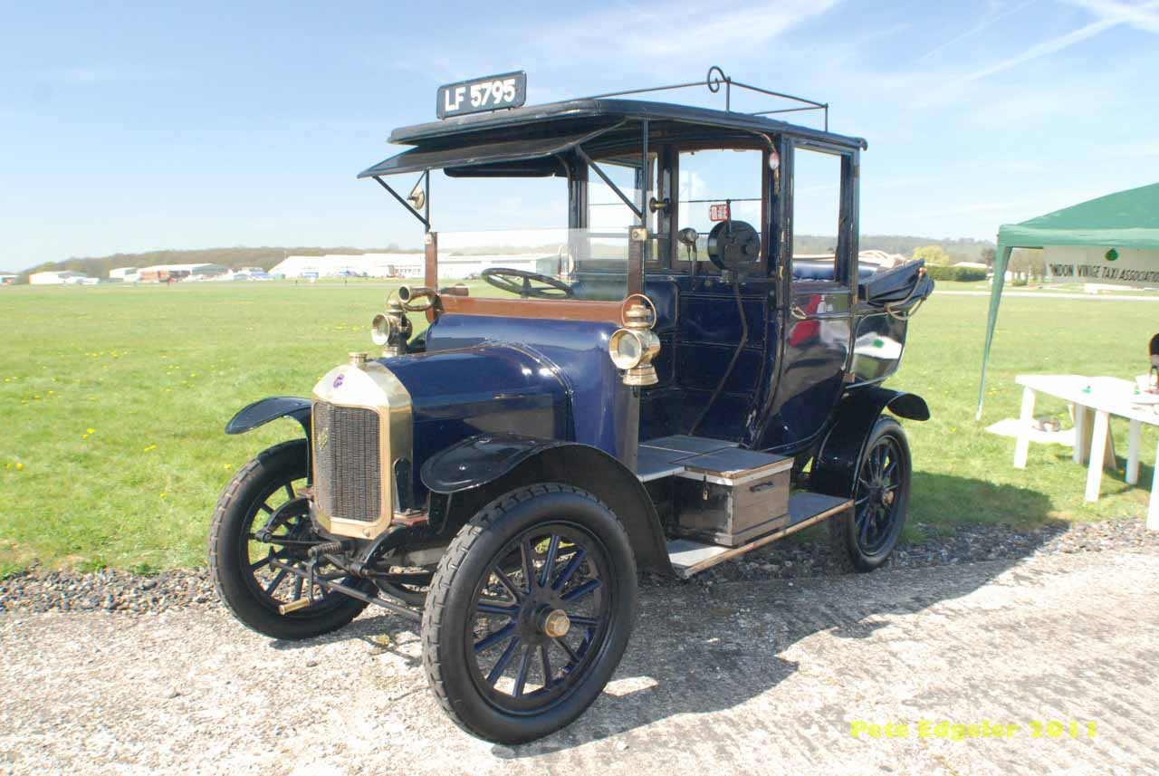 1912 UNIC Taxi cab; over 100 year old, French built London Taxi Cab.